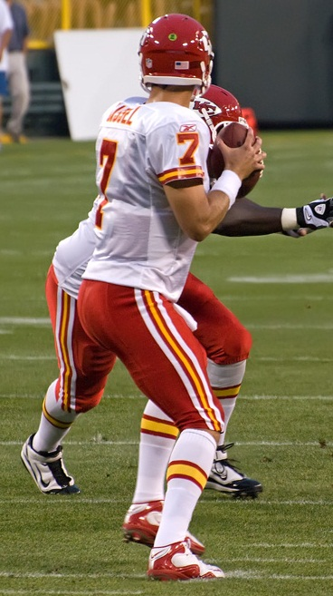 Kansas City Chiefs vs. Green Bay Packers at Lambeau Field on September 1, 2011. Photo by Mike Morbeck.